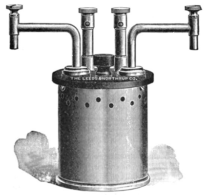 Fig.549 From illustration caption: Leeds and Northrup one ohm standard resistance (Reichsanstalt form)